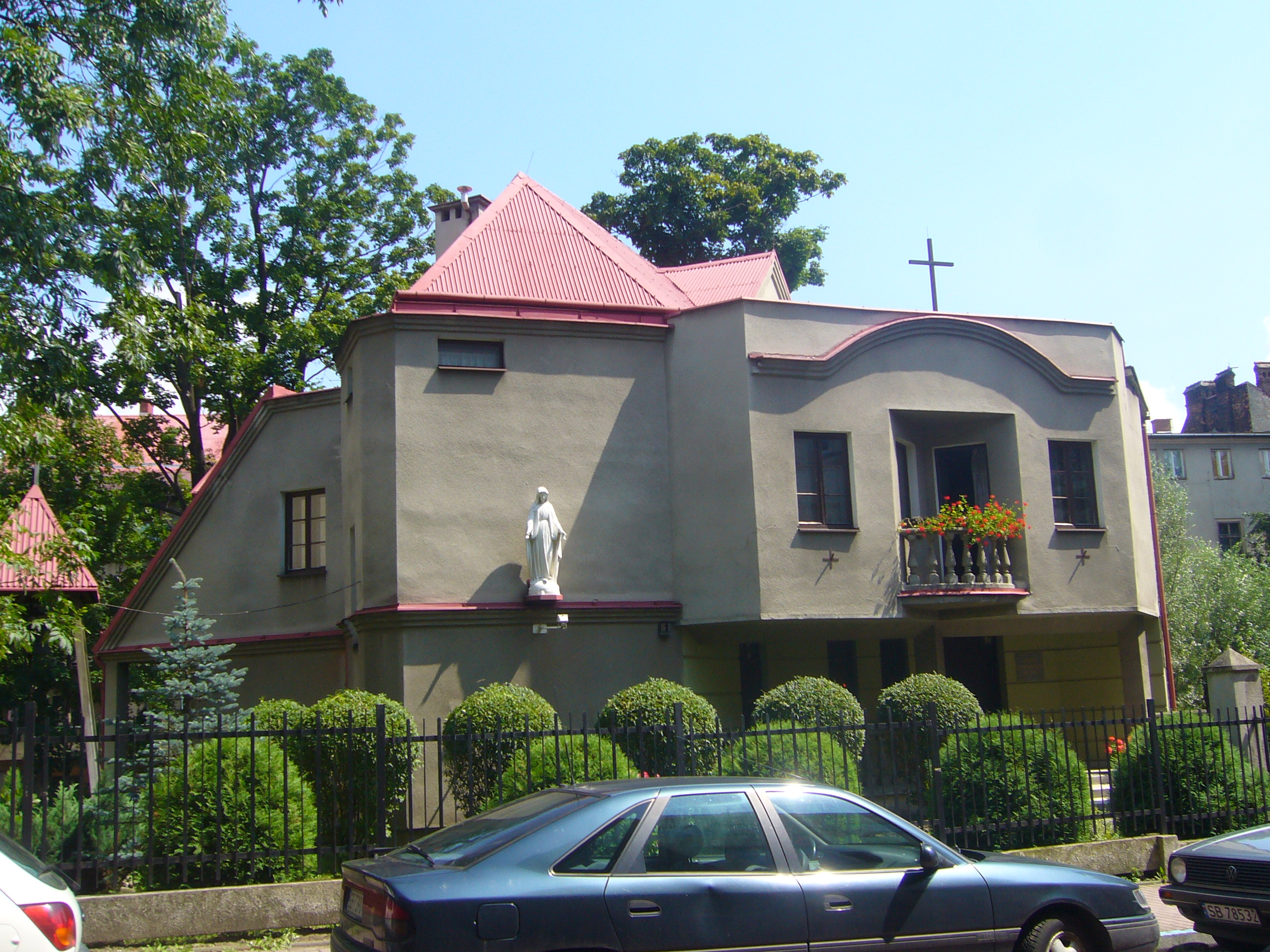 Saint Anna Polish Catholic Church in Bielsko-Biała.